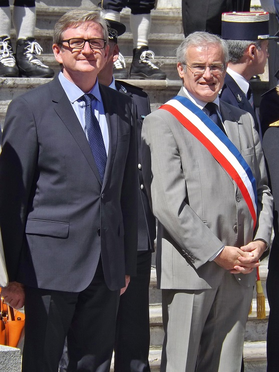 Xavier Dullin, president of Chambéry métropole agglomeration community, and Michel Dantin, mayor of Chambéry (Savoie, France), during a military ceremony at the foot of the Chambéry castle.